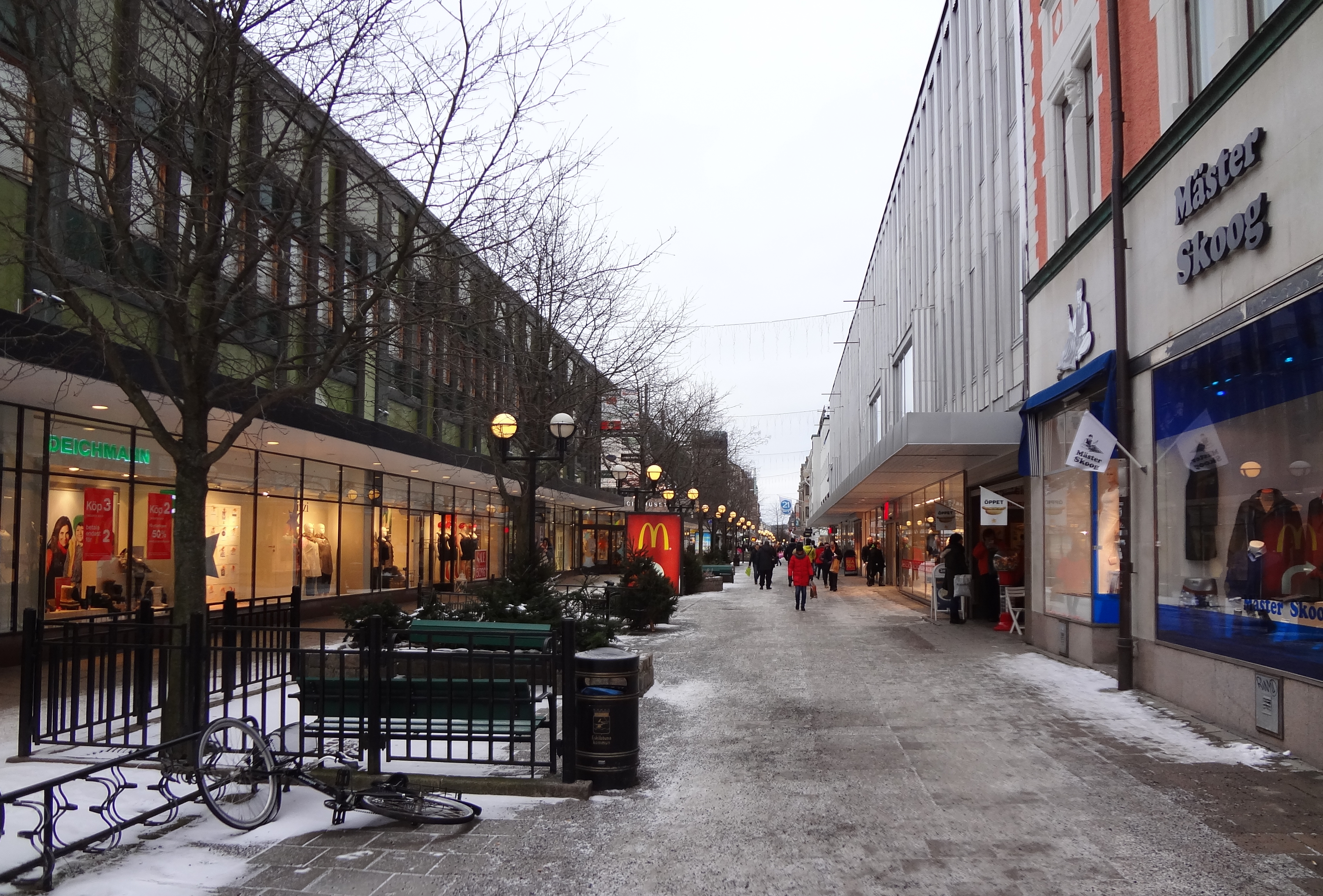 Looking east at street "Kungsgatan" in Eskilstuna, Sweden